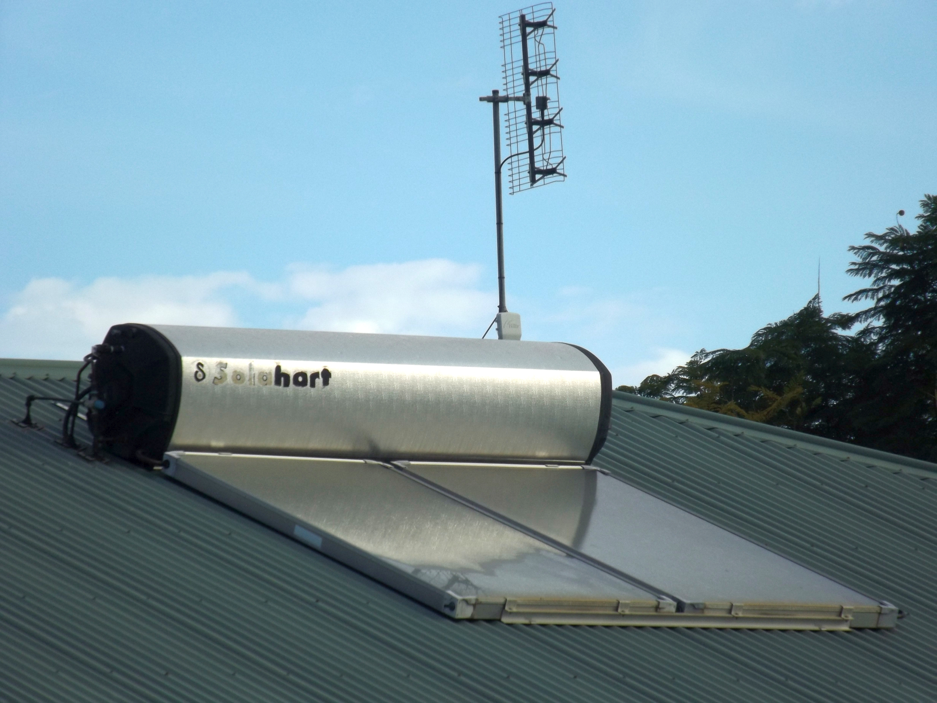 Photo of a solar rooftop panel Laidley, Lockyer Valley Region, Queensland, Australia.